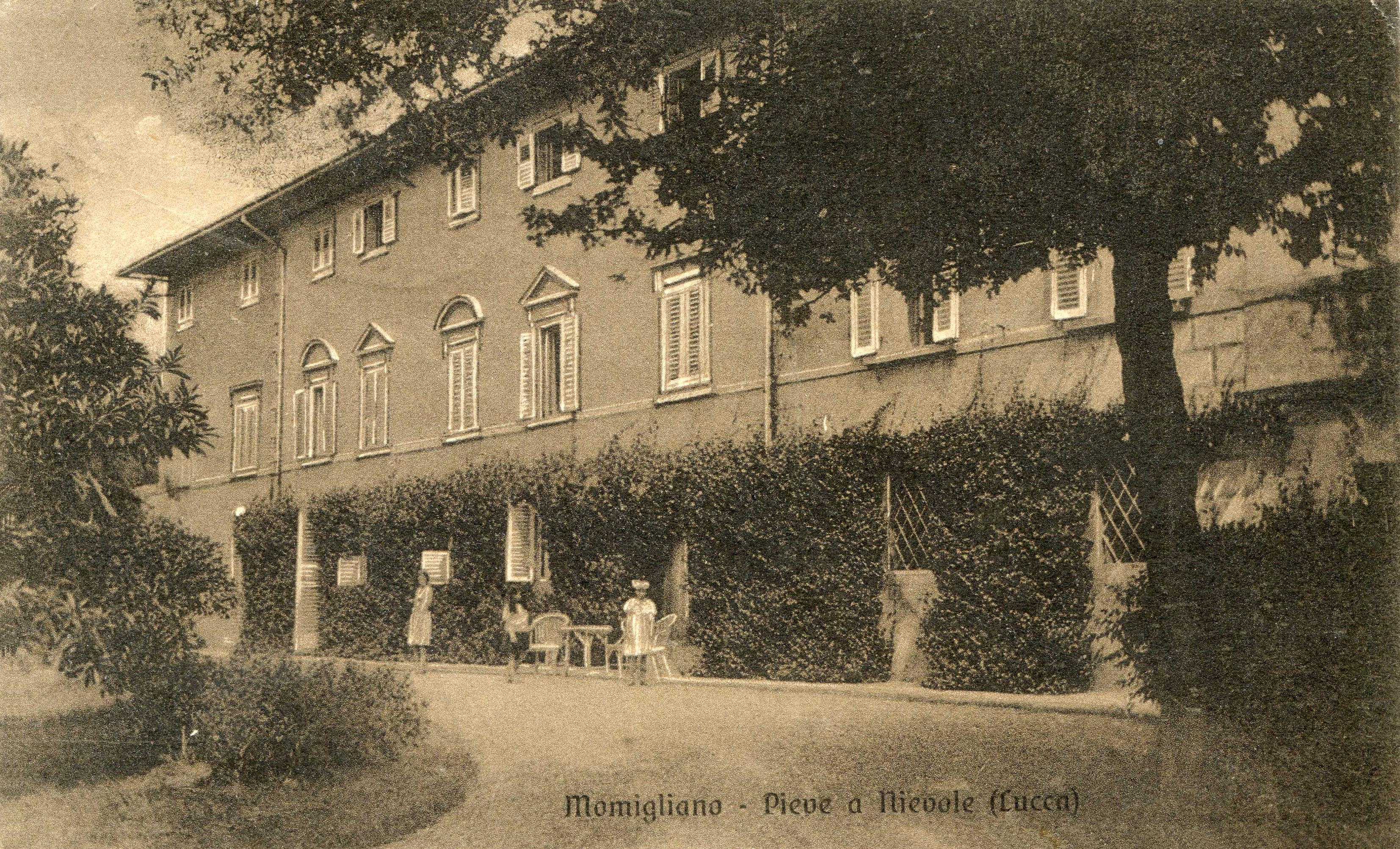 Villa Amerighi in Momigliano (Pieve a Nievole) - Pistoia